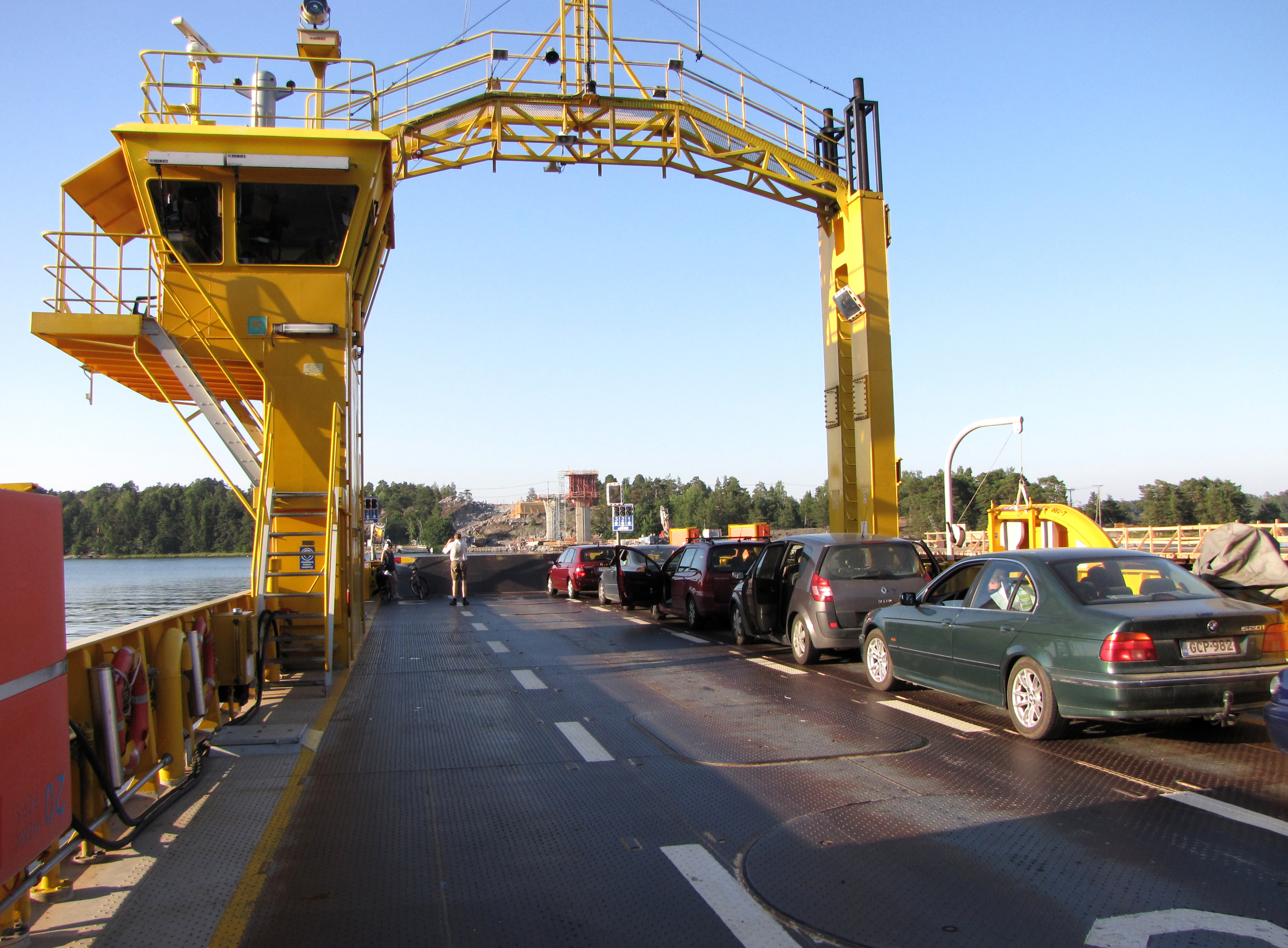 Lövö cable ferry in Kimitoön, Finland